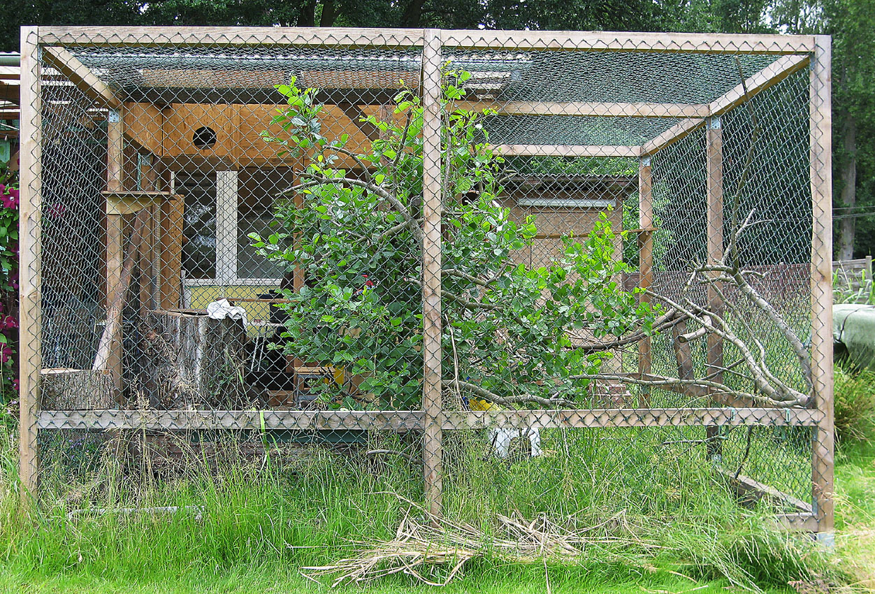 Tree cage.